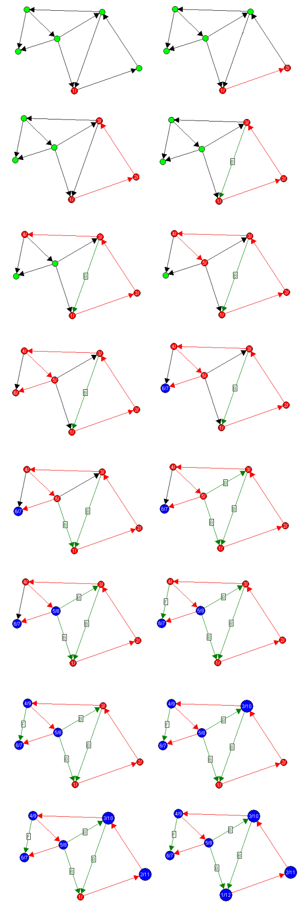 "Depth first algoritm"